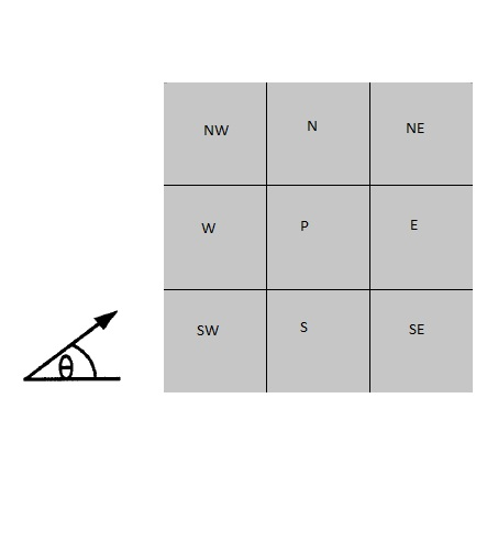 SUCCA scheme